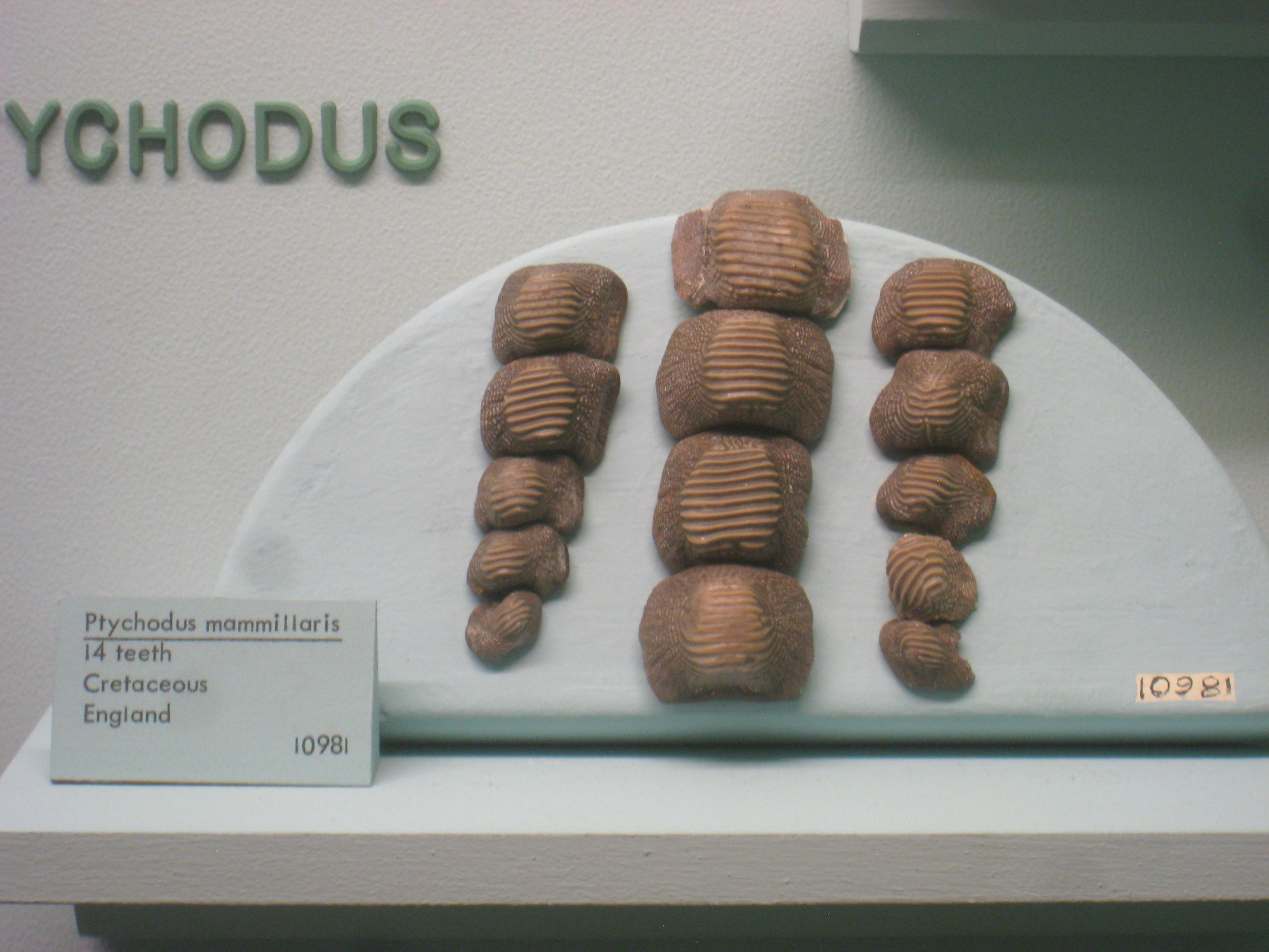 Teeth of Ptychodus mammillaris. Exhibit Museum of Natural History, University of Michigan, 1109 Geddes Avenue, Ann Arbor, Michigan, USA.